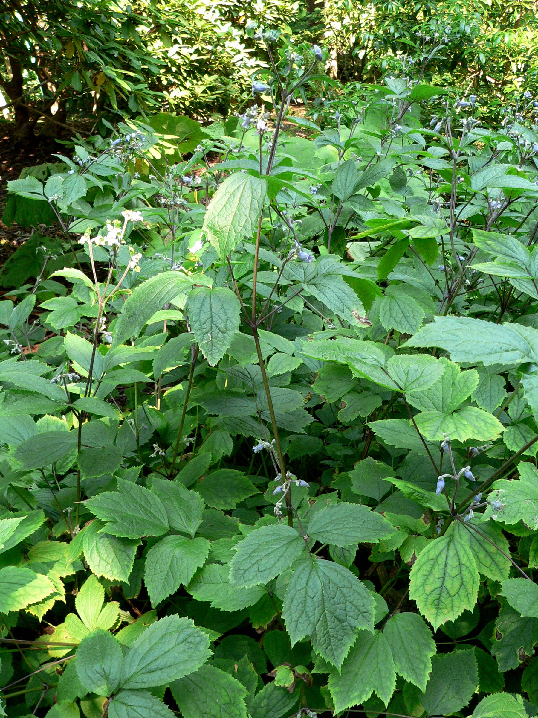 Photo of Clematis heracleifolia at the VanDusen Botanical Garden in Vancouver